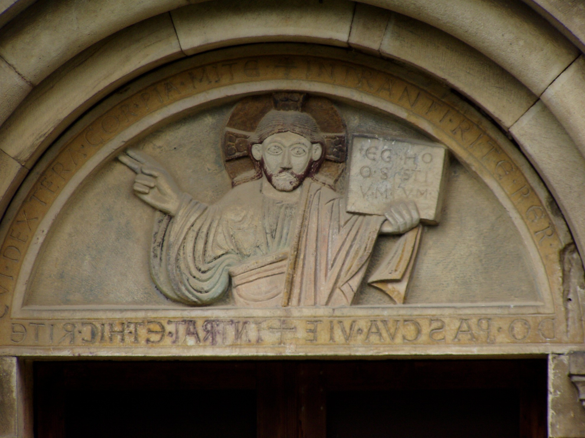 Cathedral of Gurk, southern entrance, Tympanon/Dom zu Gurk: Südportal, Tympanon